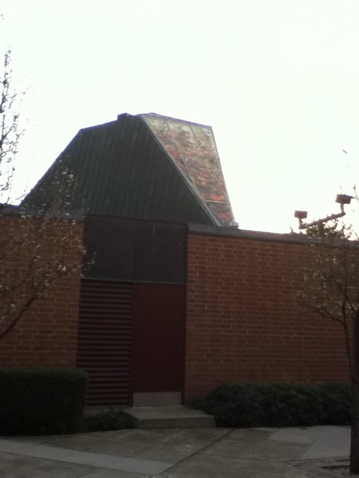 View of Rodef Sholom stain glass from outside.